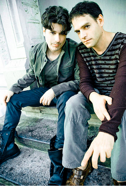 Dresden and Johnston June 2009 Photoshoot